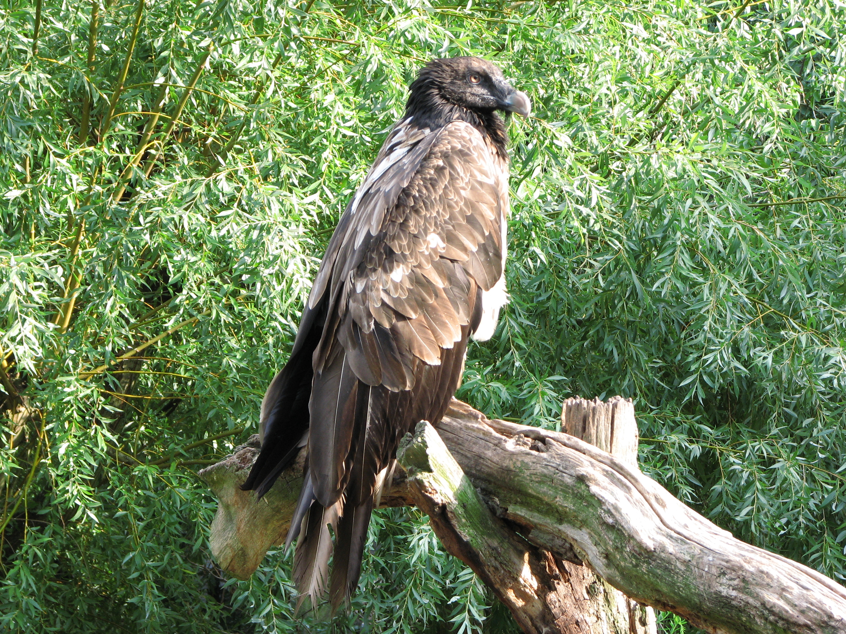 Juvenile bearded vulture (Gypaetus barbatus), Tierpark Berlin, Germany.